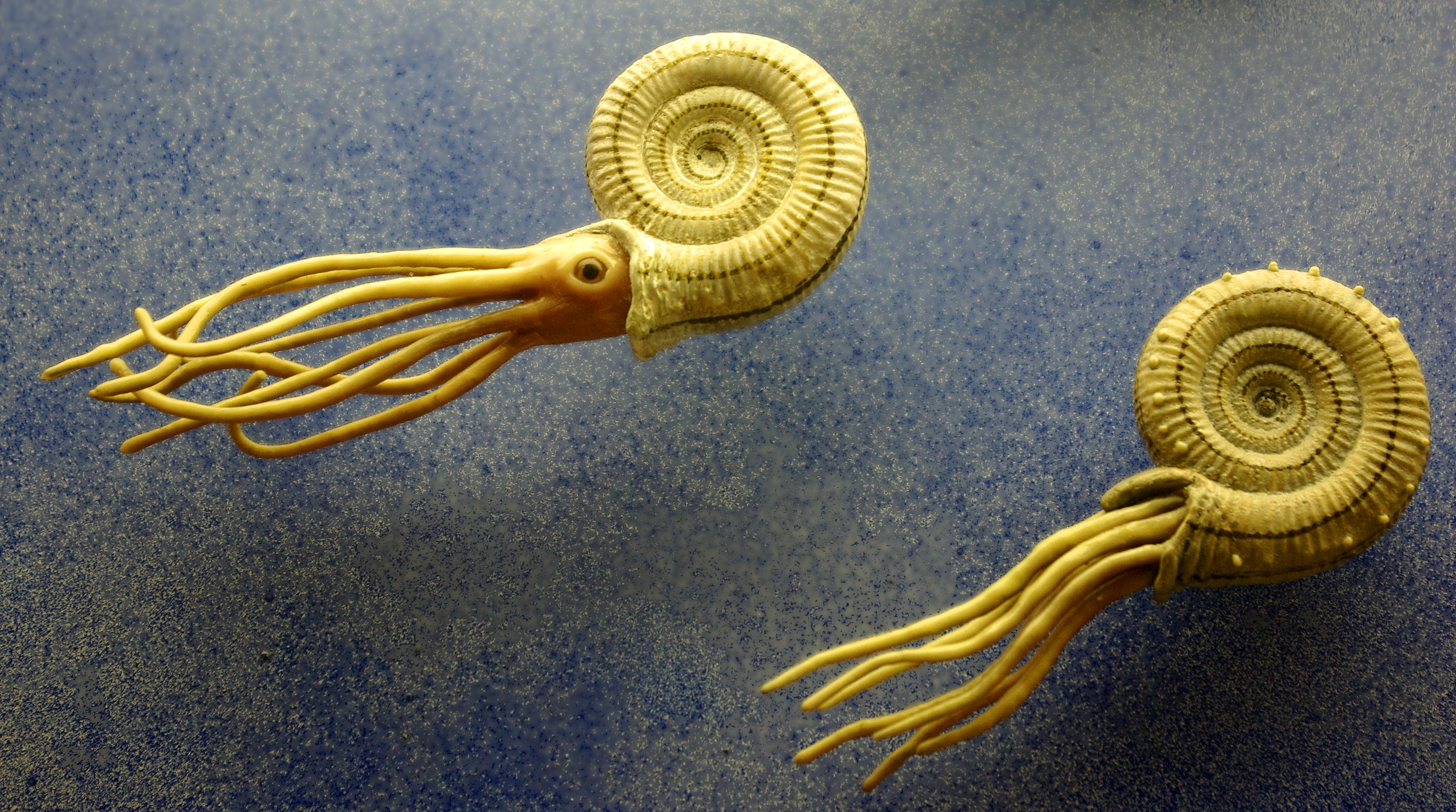 Reconstruction of ammonoids